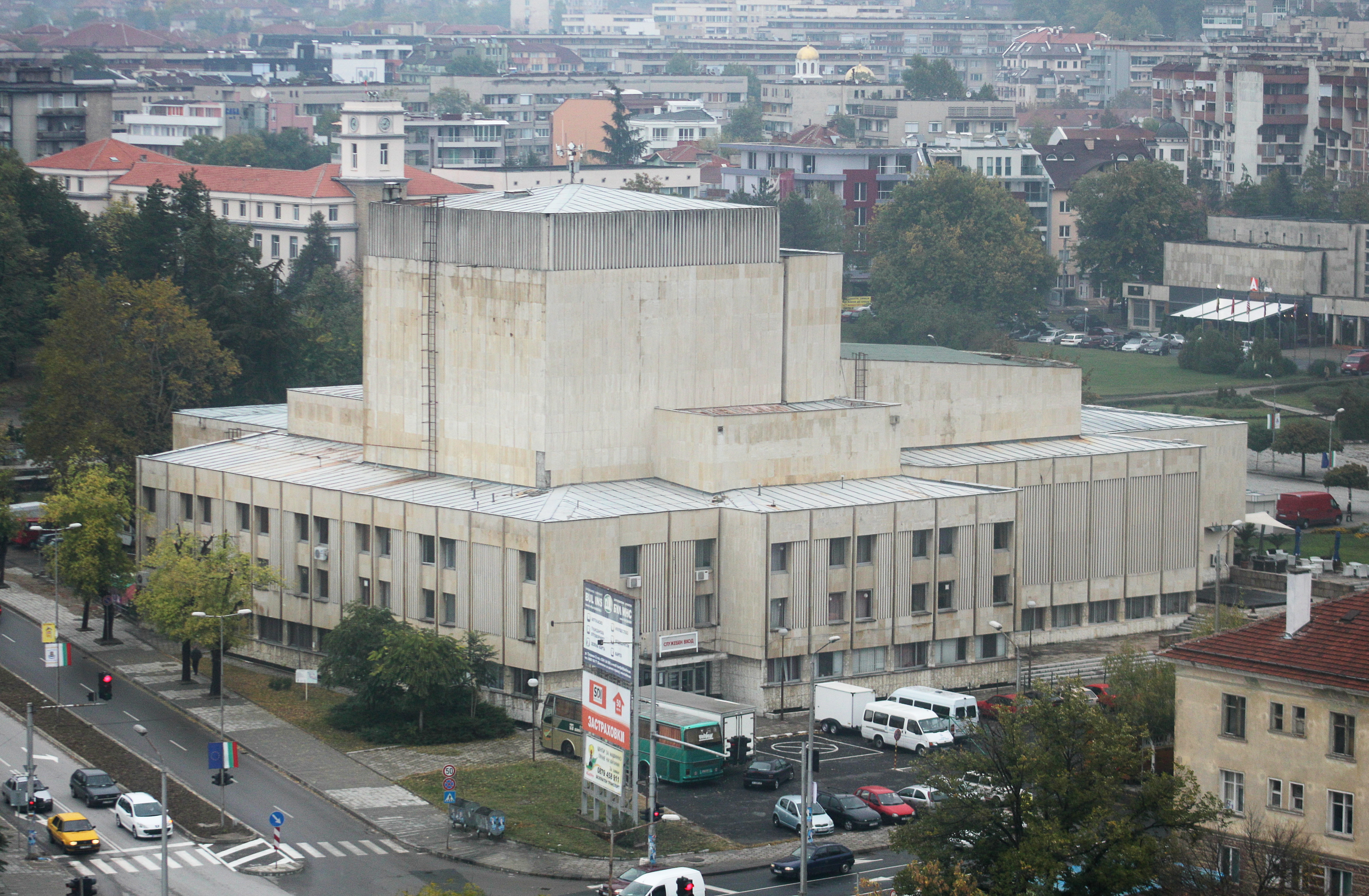 view from Hotel Arpezos, Kardzhali , Bulgaria